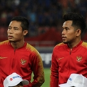 Surabaya footballer, Evan Dimas (right) and Andik Vermansah (left)